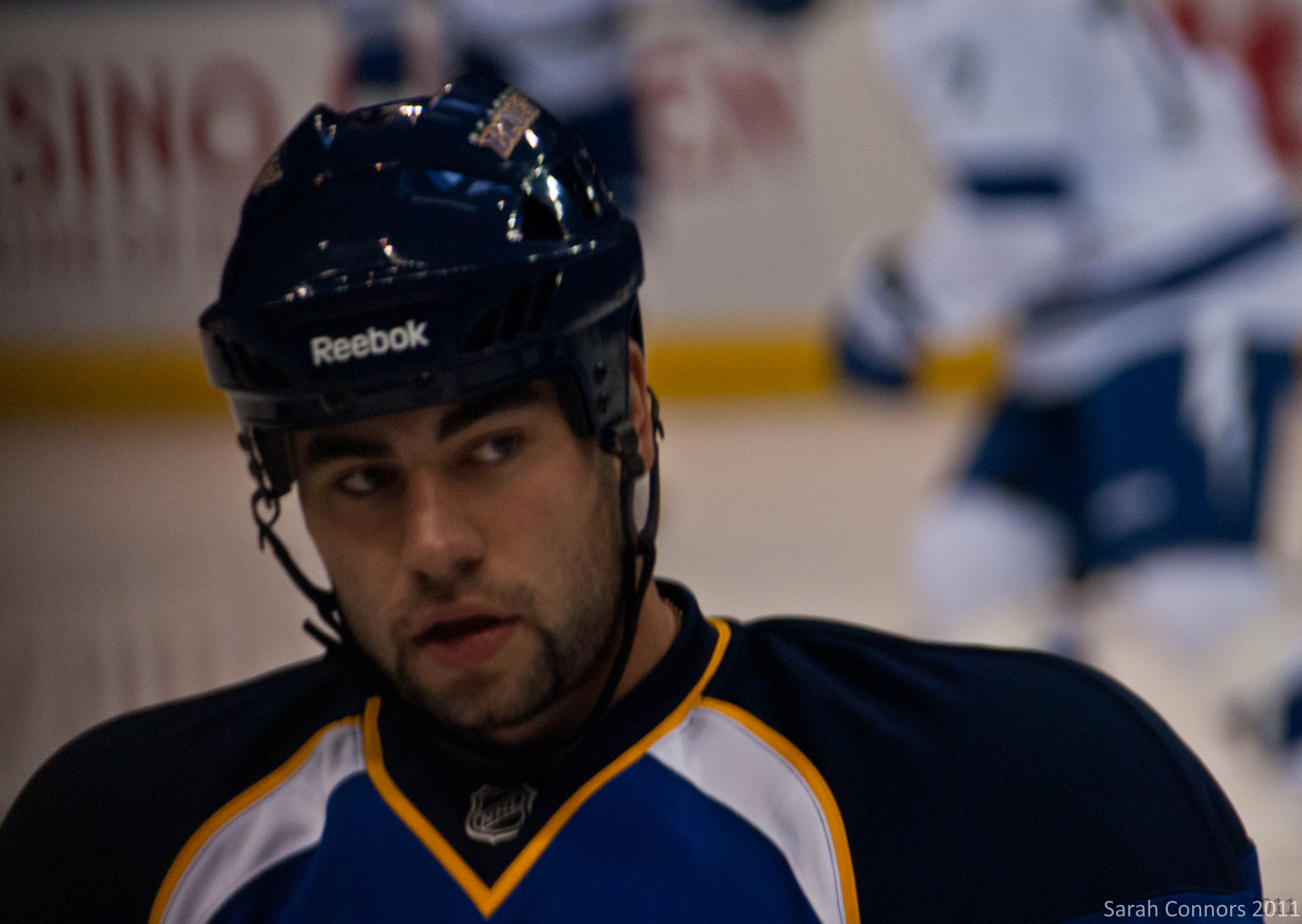 Roman Polak of the St. Louis Blues